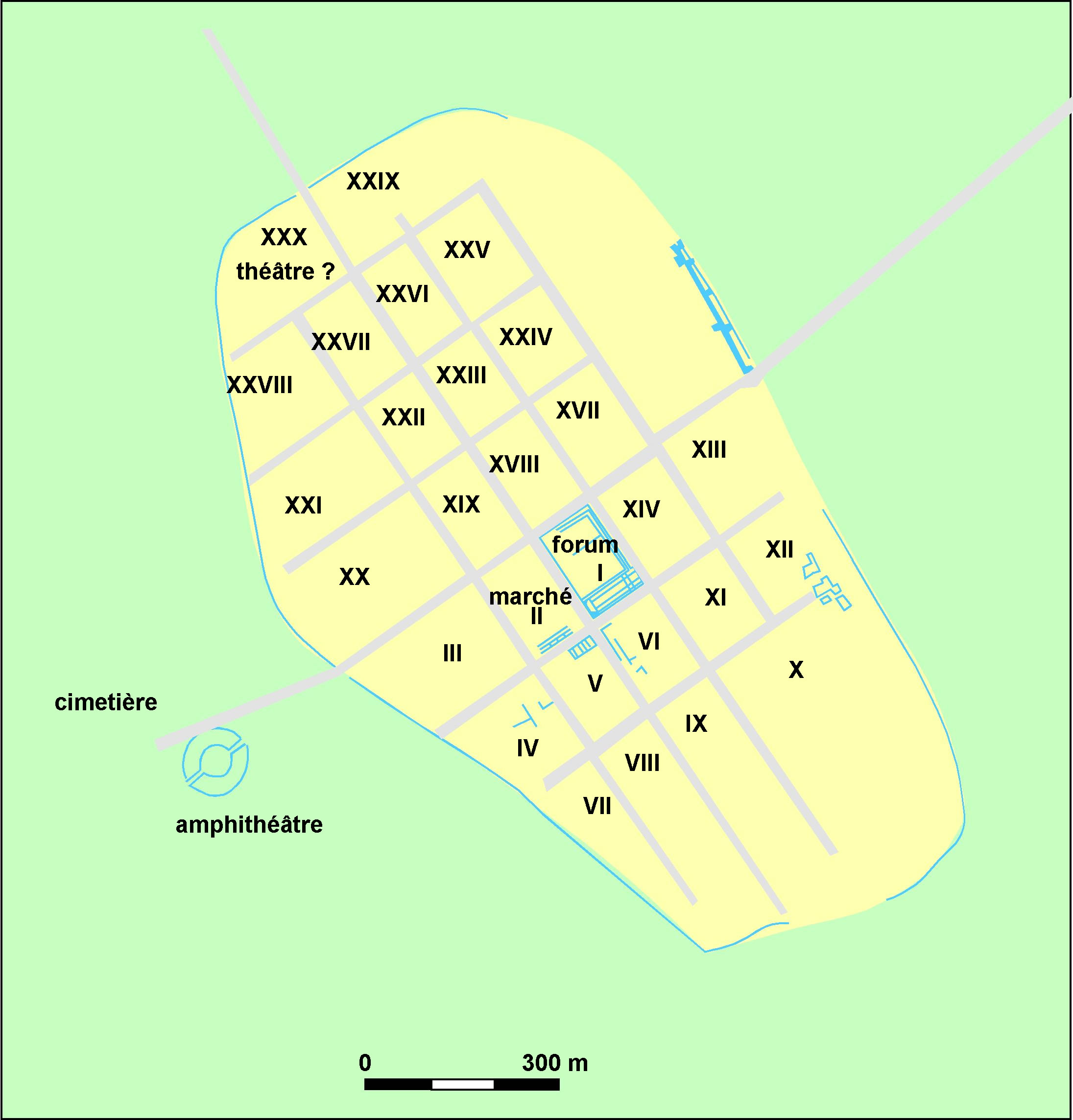 Plan of Roman Cirencester